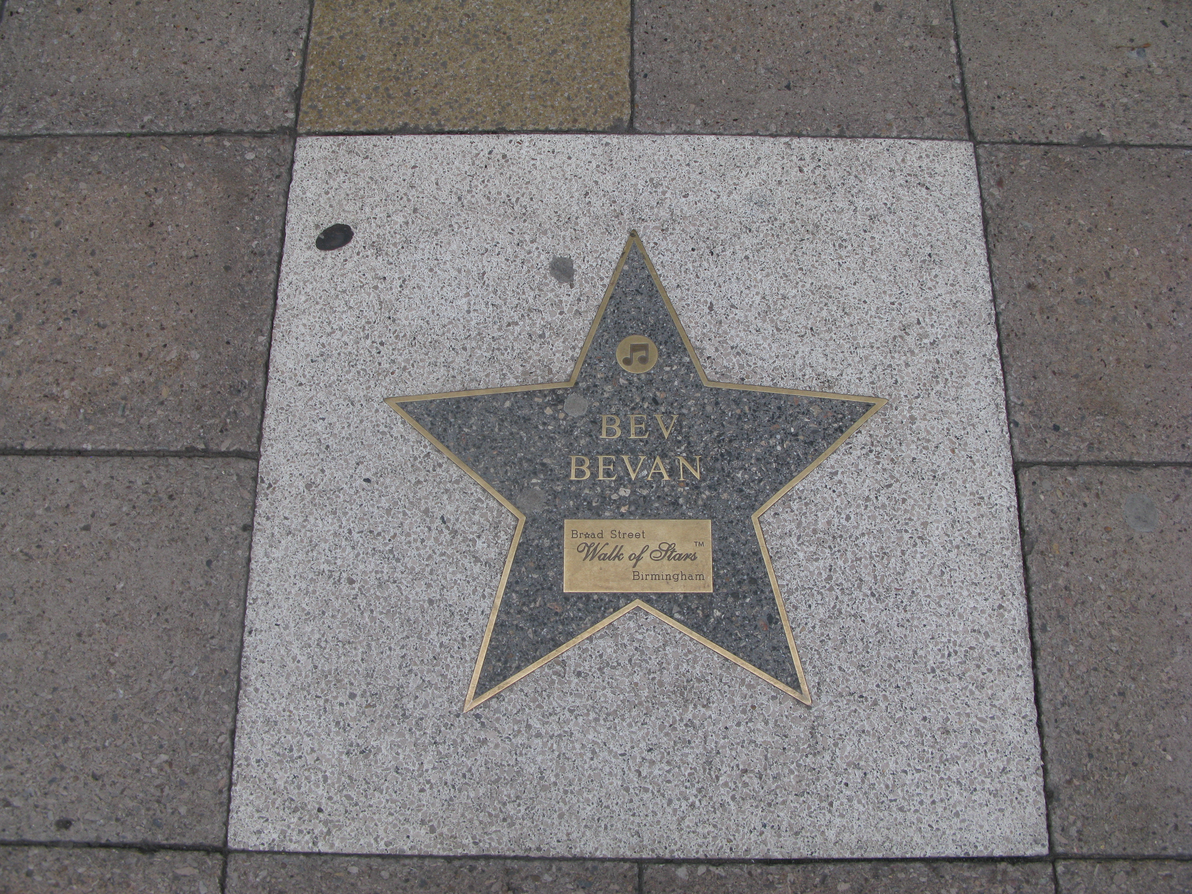 part of the Walk of Stars project. Embedded Pavement Plaques along the length of Broad Street. Most are clusterred towards the City end